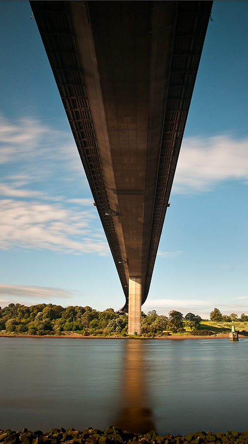 The Erskine Bridge is a cable-stayed box girder bridge spanning the River Clyde in west central Scotland, connecting West Dunbartonshire with Renfrewshire Original description:f/11 15 seconds. B&W 10 stop filter.